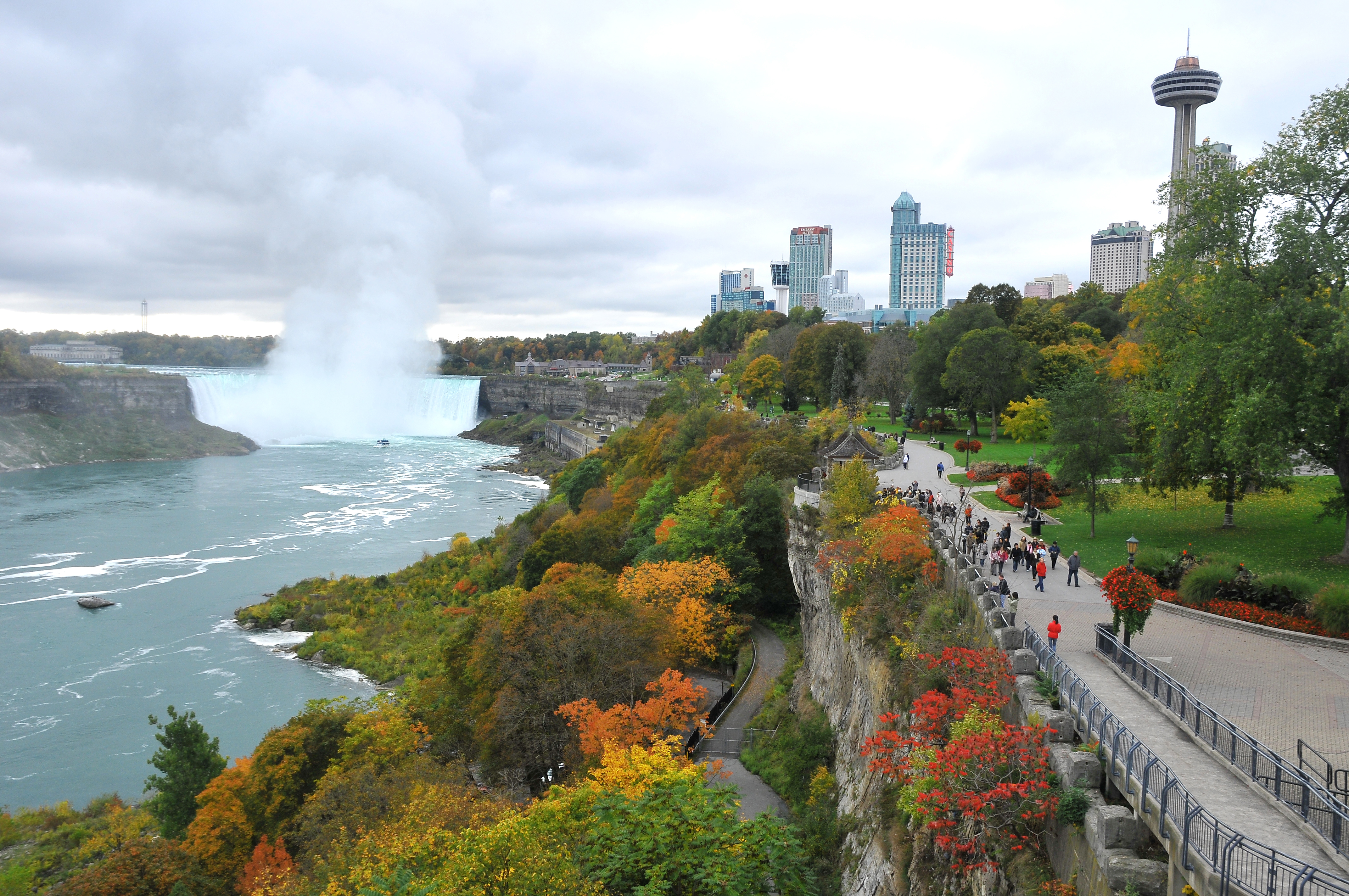 Horseshoe Falls, from the canadian side. Niagara Falls, New York, United States / Ontario, Canada